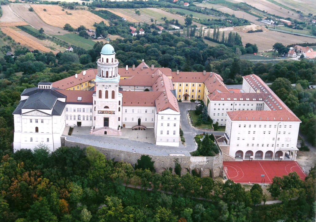 Bencés apátság / Benedictine monastery. - Pannonhalma - Hungary - Europe